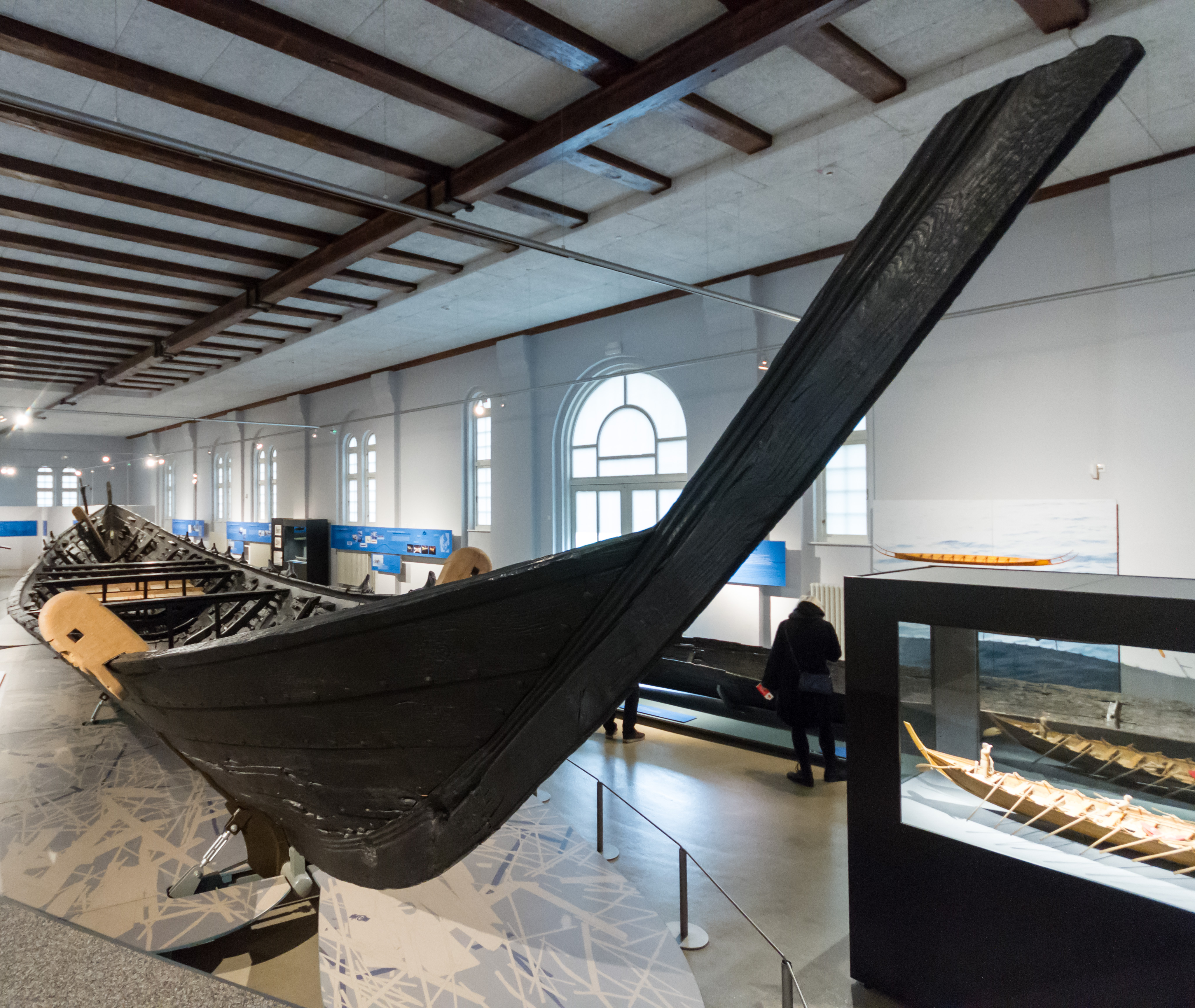 Nydam boat